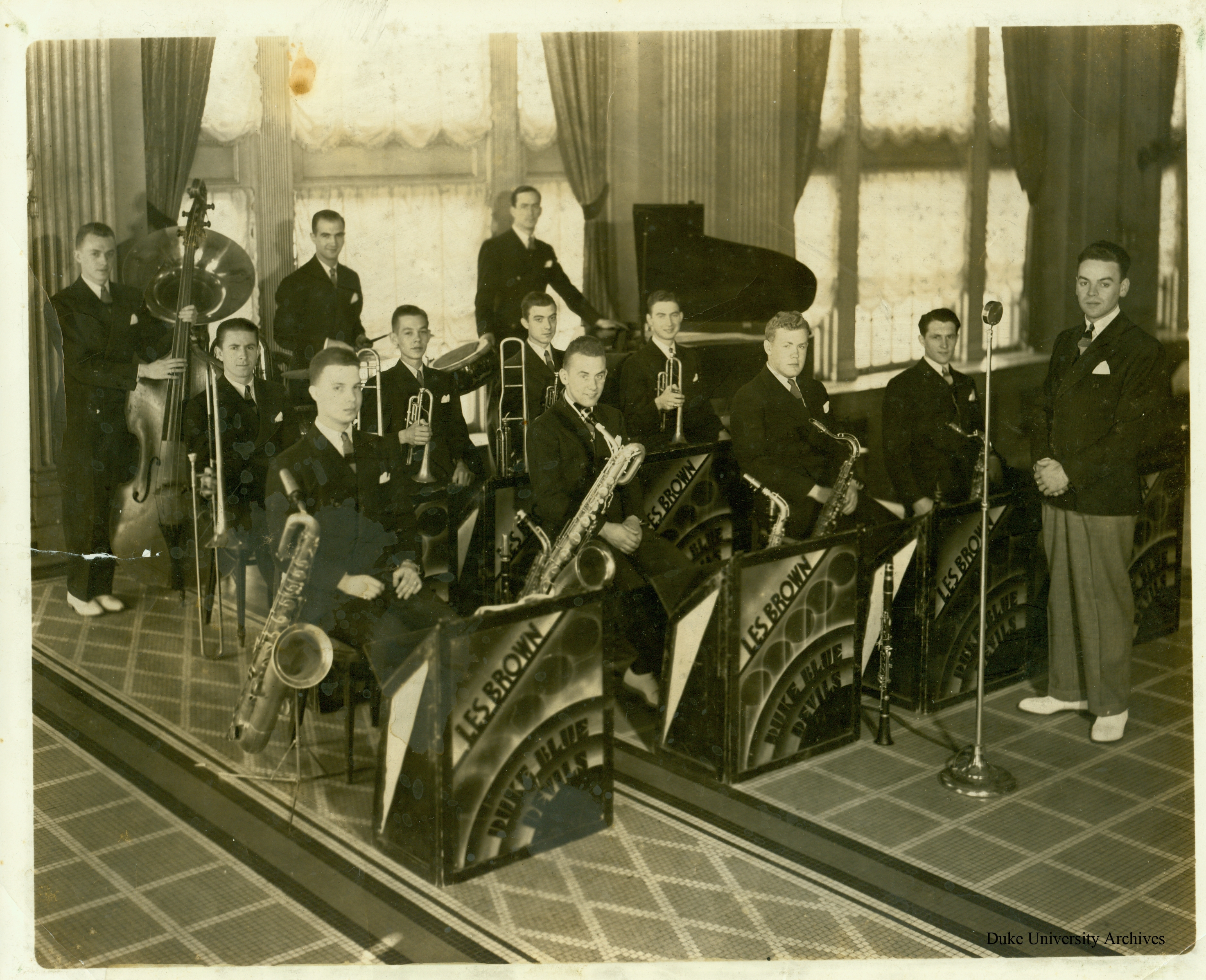 Les Brown and His Blue Devils; Courtesy of the Duke University Archives